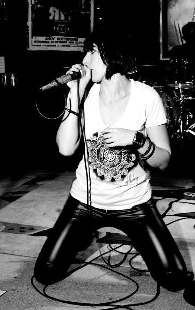 Photo of singer/songwriter Niki Barr performing live in concert